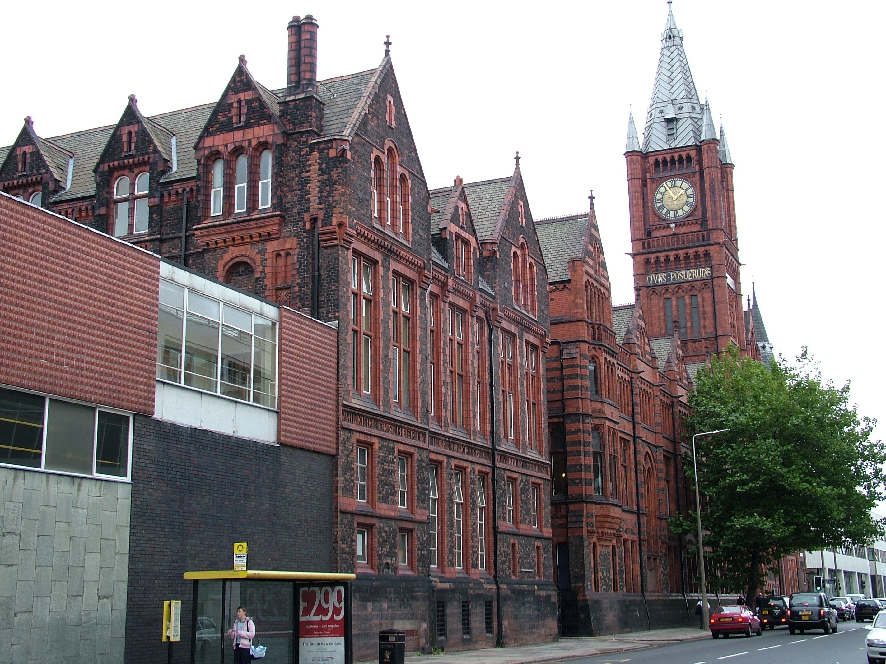 Victoria Building, University of Liverpool. Taken by Chris Howells, September 2005.